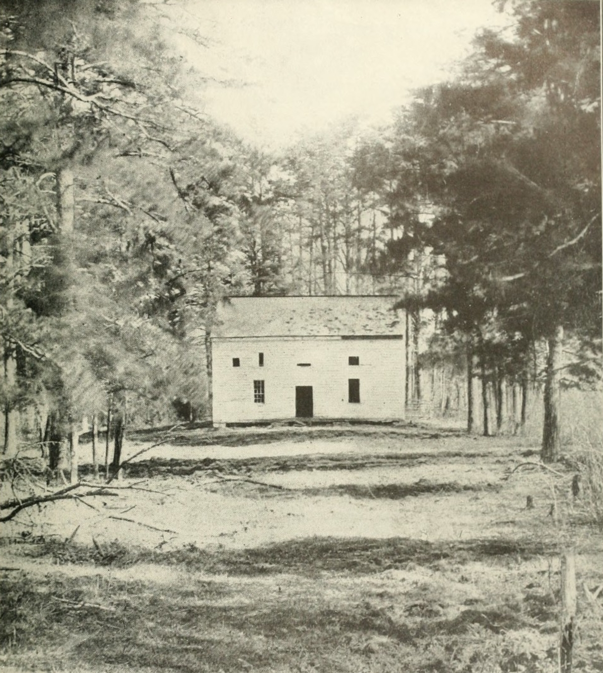 Wilderness Church at Chancellorsville was the center of a stand made by Union general Schurz's division after Confederates under Stonewall Jackson made a surprise flank attack. The stand was brief as the Confederates smashed through and continued to roll up the Eleventh Corps (under command of General Oliver O. Howard).